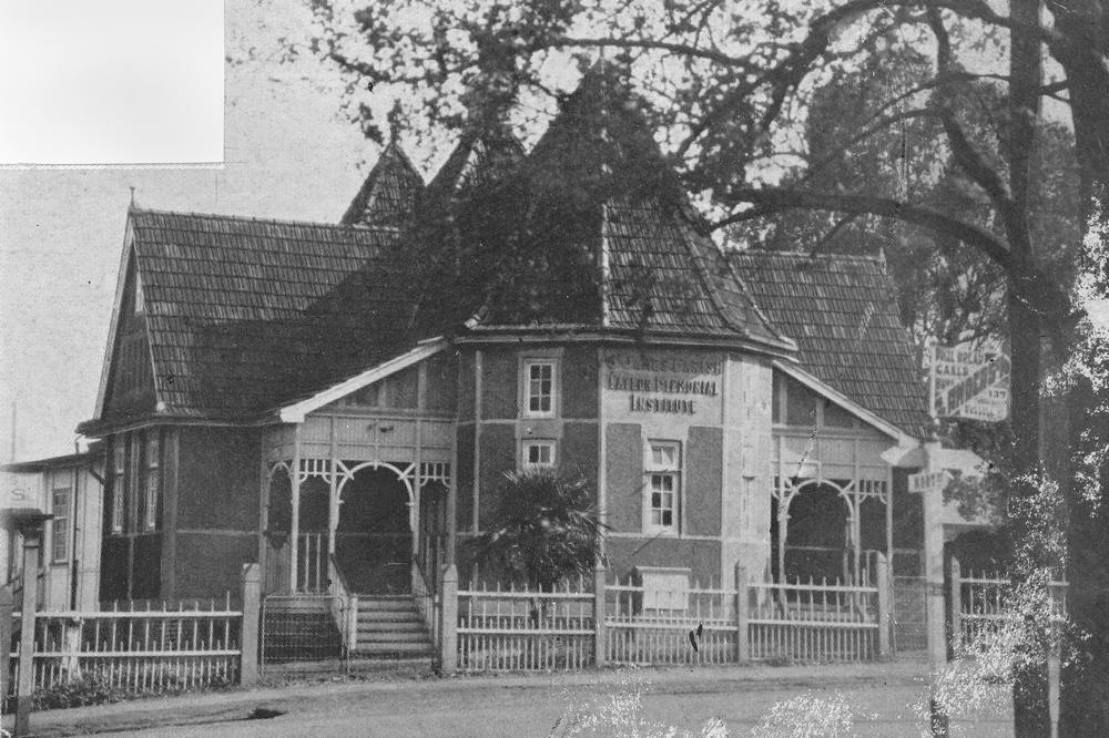 Taylor Memorial Institute in Toowoomba Queensland 1932 (aka St James Parish Hall)